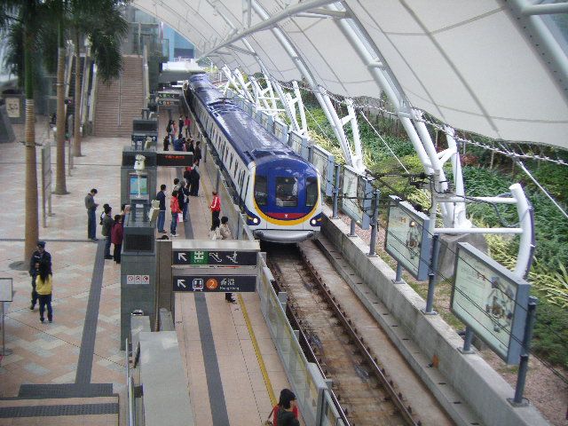 MTR Disneyland Resort Line Train.